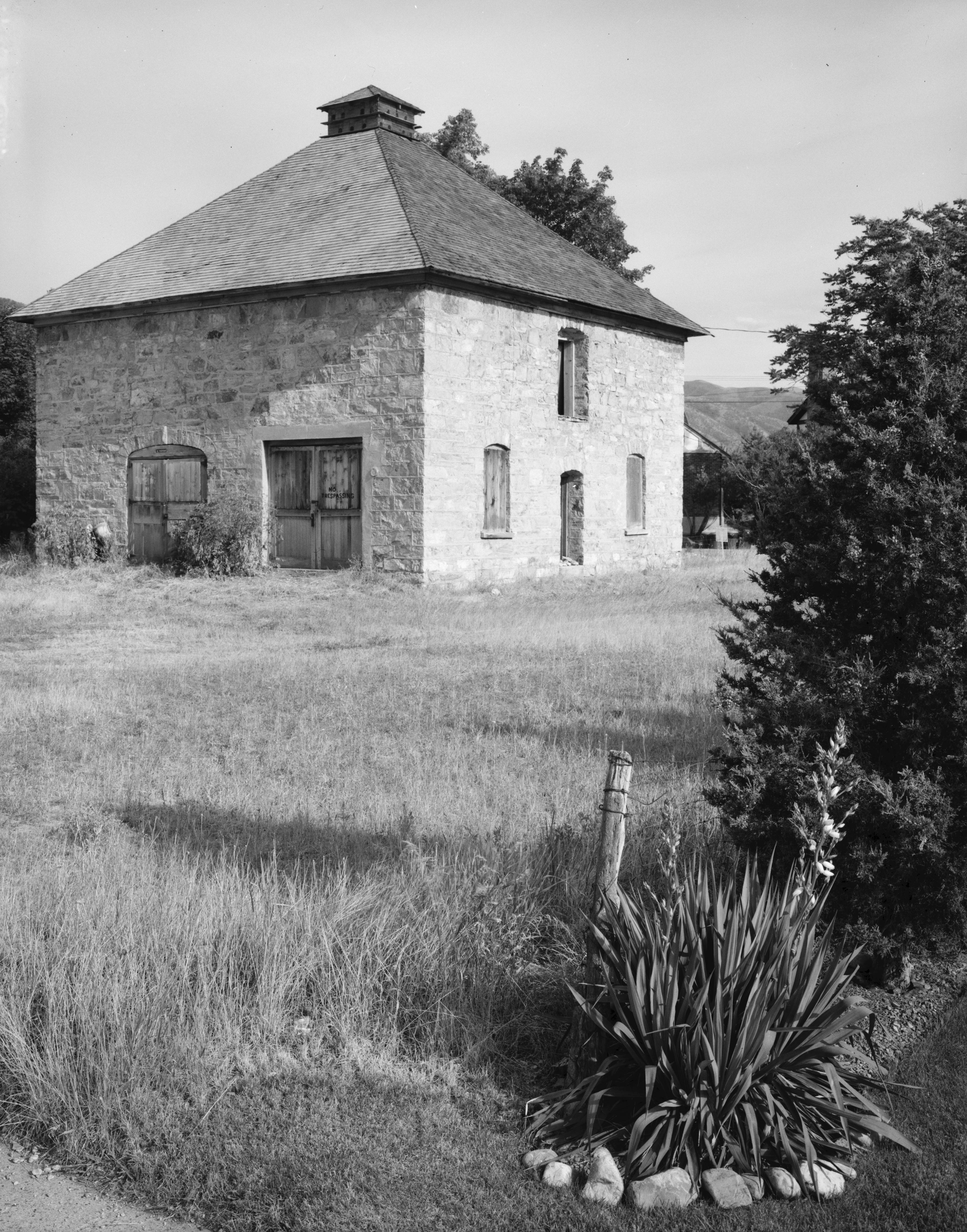 Front and side of the Logan Temple Barn, located at 368 E. 200 North in Logan, Utah, United States. Built in 1897, the barn — associated with the Logan Utah Temple — is listed on the National Register of Historic Places.